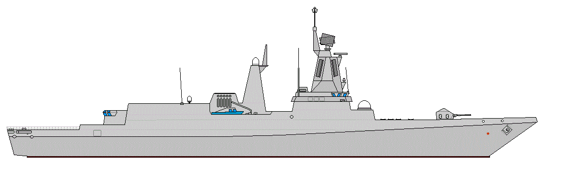 Russian frigate class Admiral Sergei Gorshkov